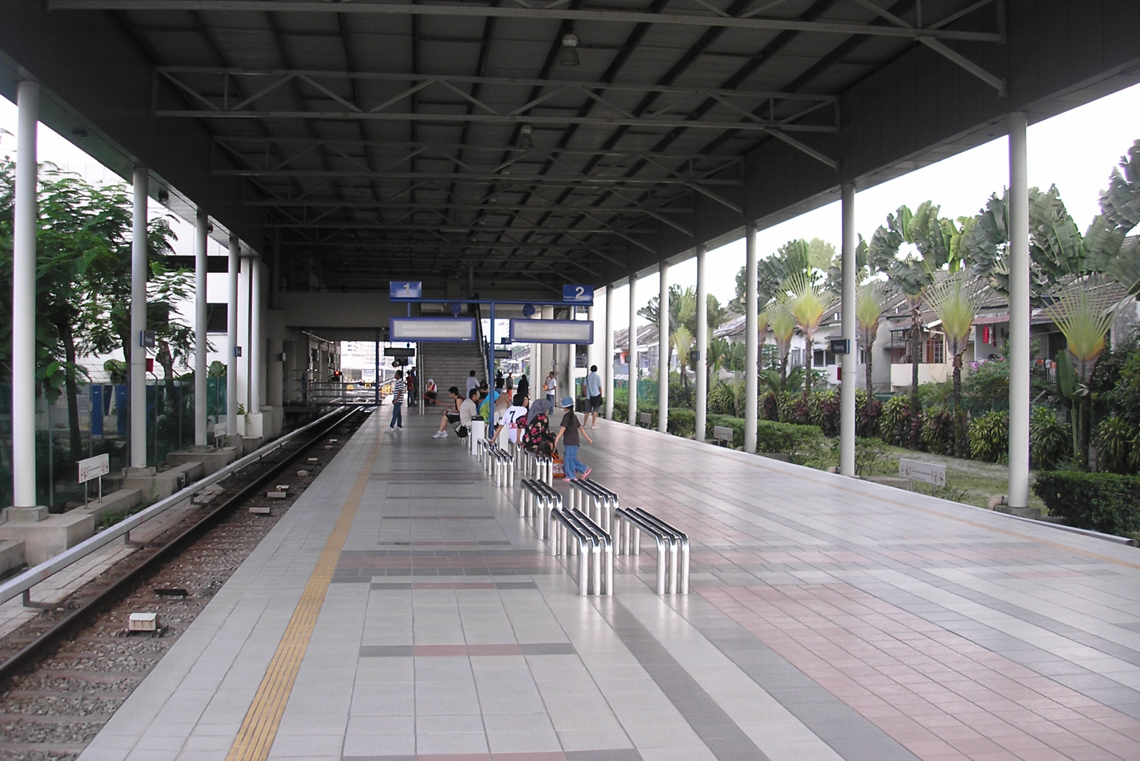 A platform view of the Ampang LRT terminal (Ampang Line), Selangor, Malaysia.